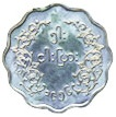 Reverse of 1956 5 pya coin